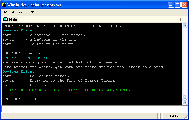 A screenshot of MUD client called